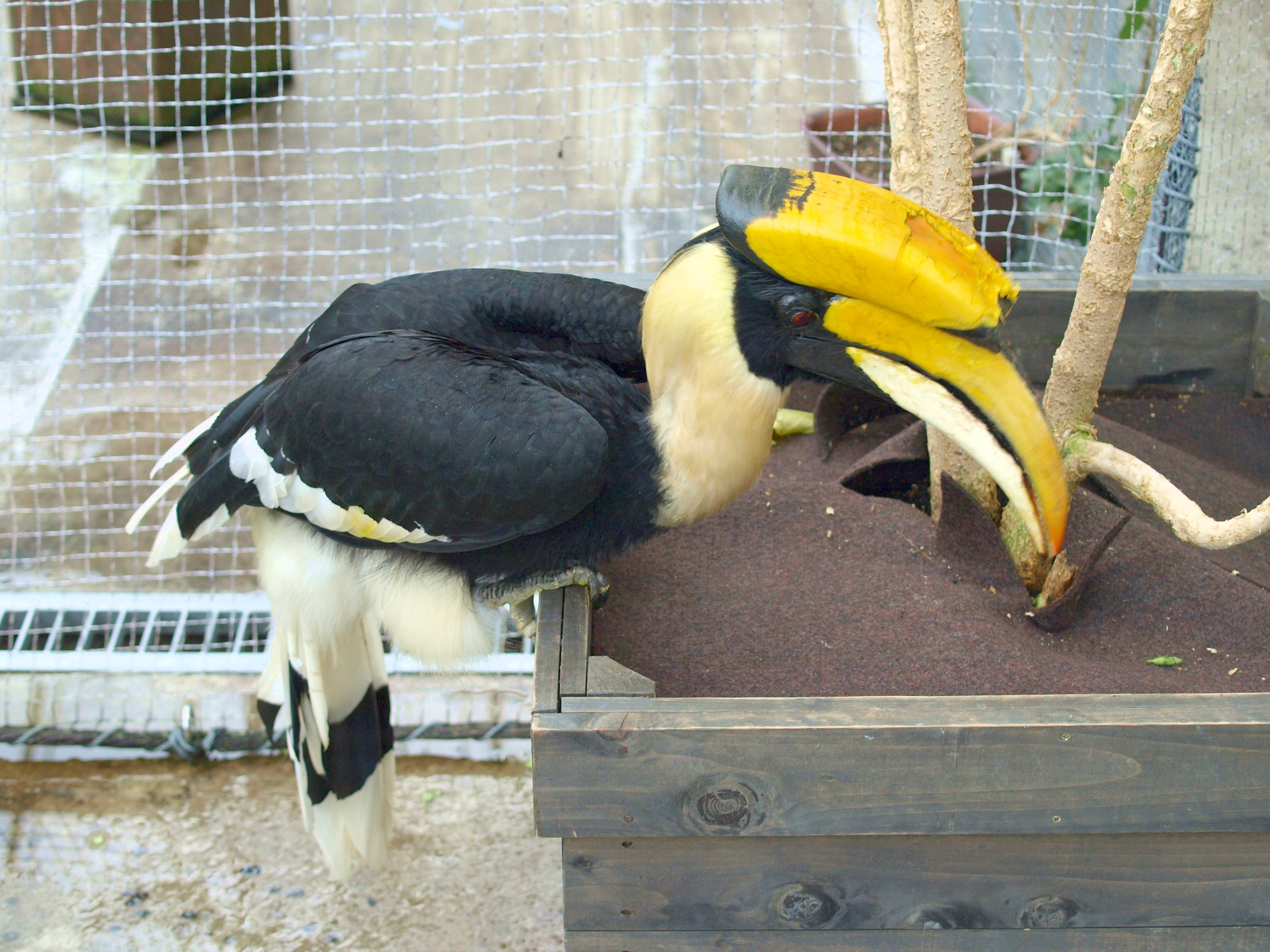 A Great Hornbill (Buceros bicornis) at Kobe Kachoen, Kobe, Japan.